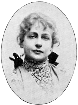 Image scanned from the book "Svenskt Porträttgalleri XX - Arkitekter, Bildhuggare, Målare m.fl. " ("Swedish Portrait Gallery XX - Architects, Sculptors, Painters, ") published 1901